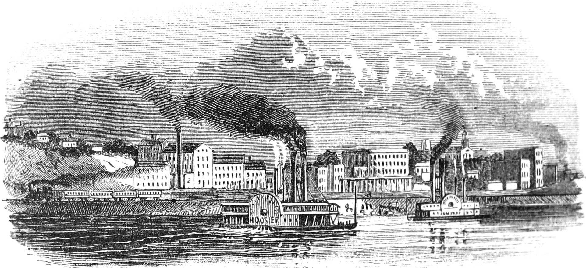 Muscatine engraving